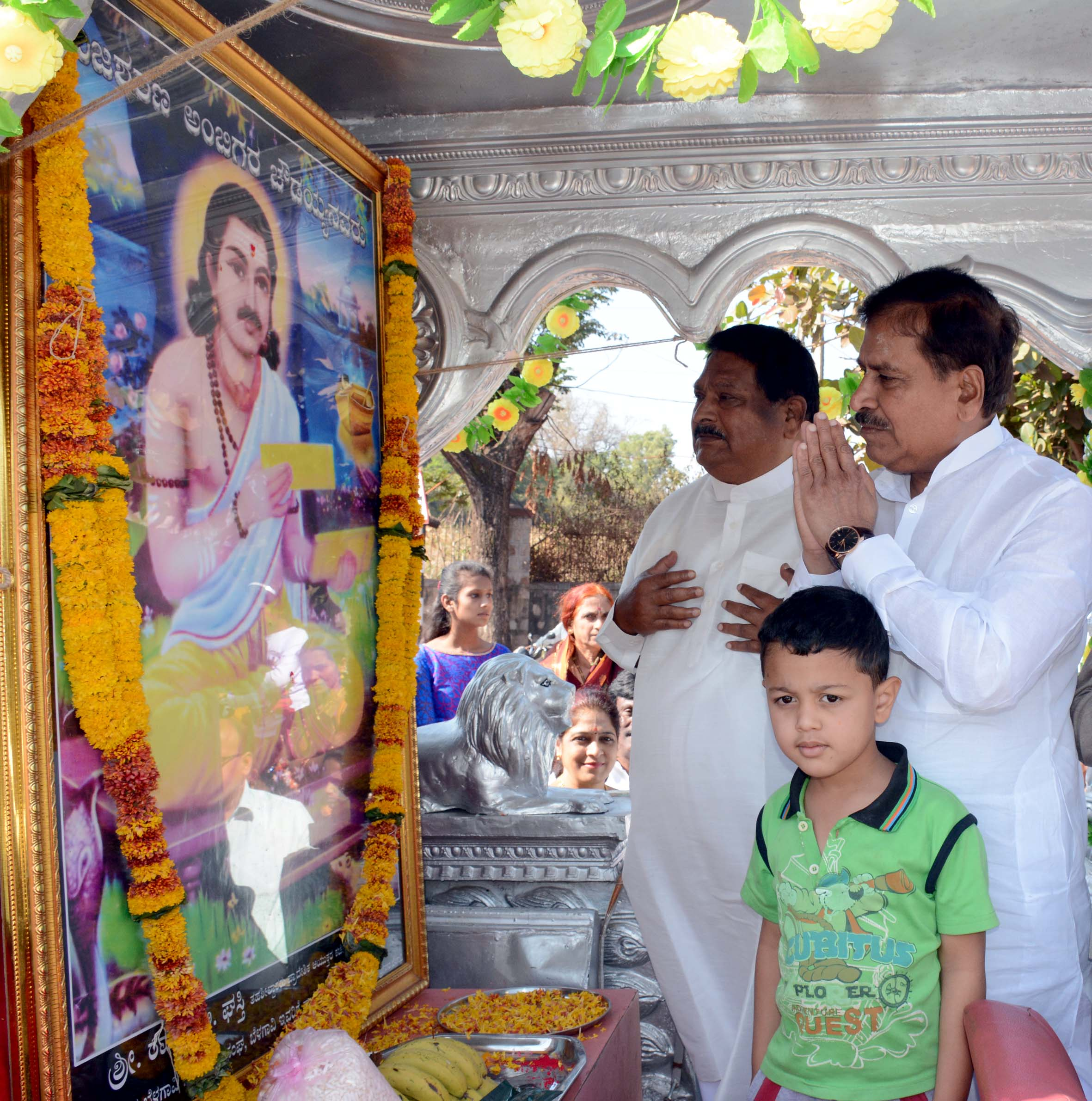 Ambigara Chowdaiya Jayanti celebrated by MP Suresh Angadi